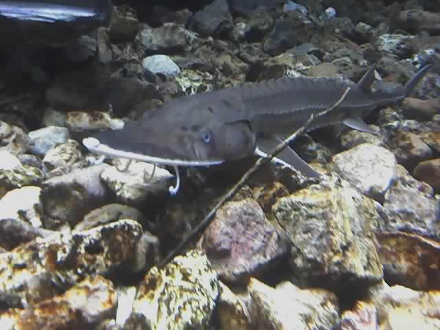 Shovelnose sturgeon Scaphirhynchus platorynchus